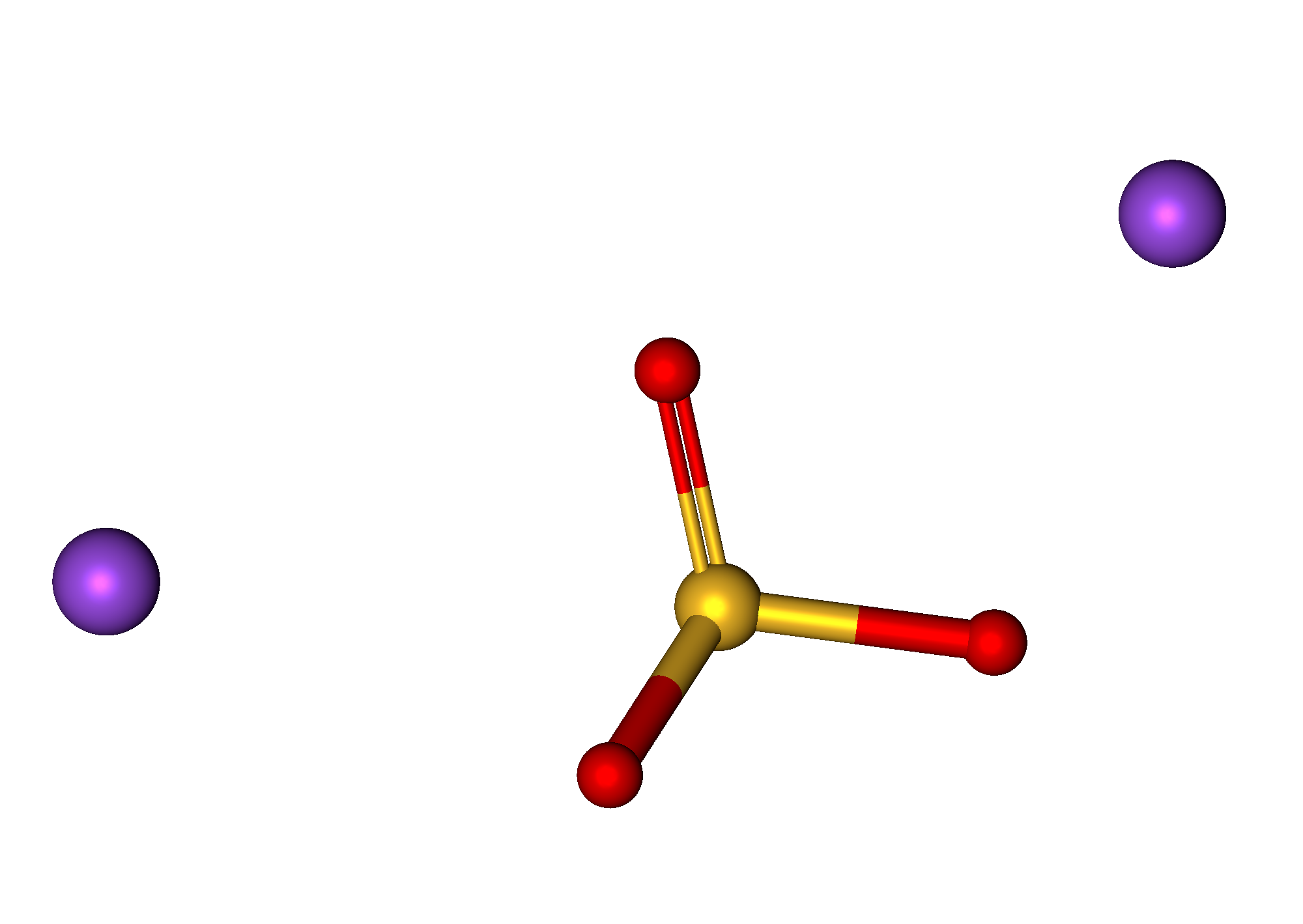 Ball-and-stick model of Sodium sulfite molecule. The structure is taken from ChemSpider. ID 22845